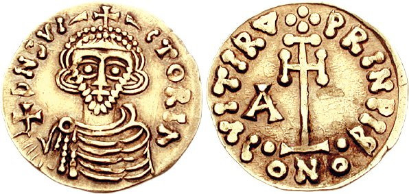 Lombards, Beneventum (nowdays Benevento. Arichis II. As Princeps, 774-787. AV Tremissis (1.20 g, 6h). Type 2. D N SVI (wedge) (wedge) CTORIΛ, crowned facing bust, holding globus cruciger VITIR∀— PRINPI, cross potent; A to left, four pellets above, pellets flanking base; C ONO B. Oddy 442; CNI XVIII 3; BMC Vandals 11; MEC 1, 1097. Good VF, lightly toned. From the Marc Poncin Collection.